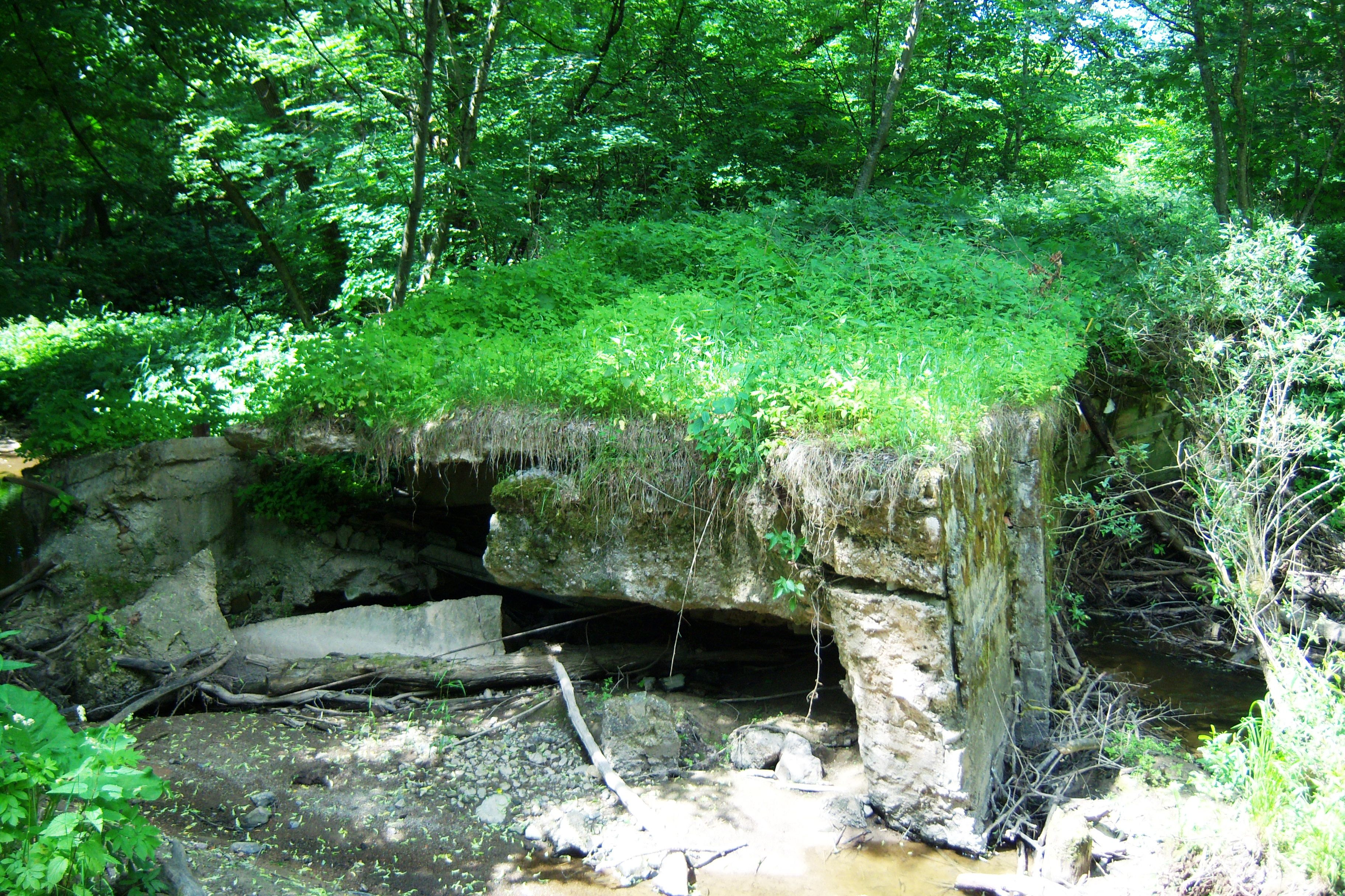 Vyčius River near Jiesia River. Bridge ruins. Kaunas district. Lithuania